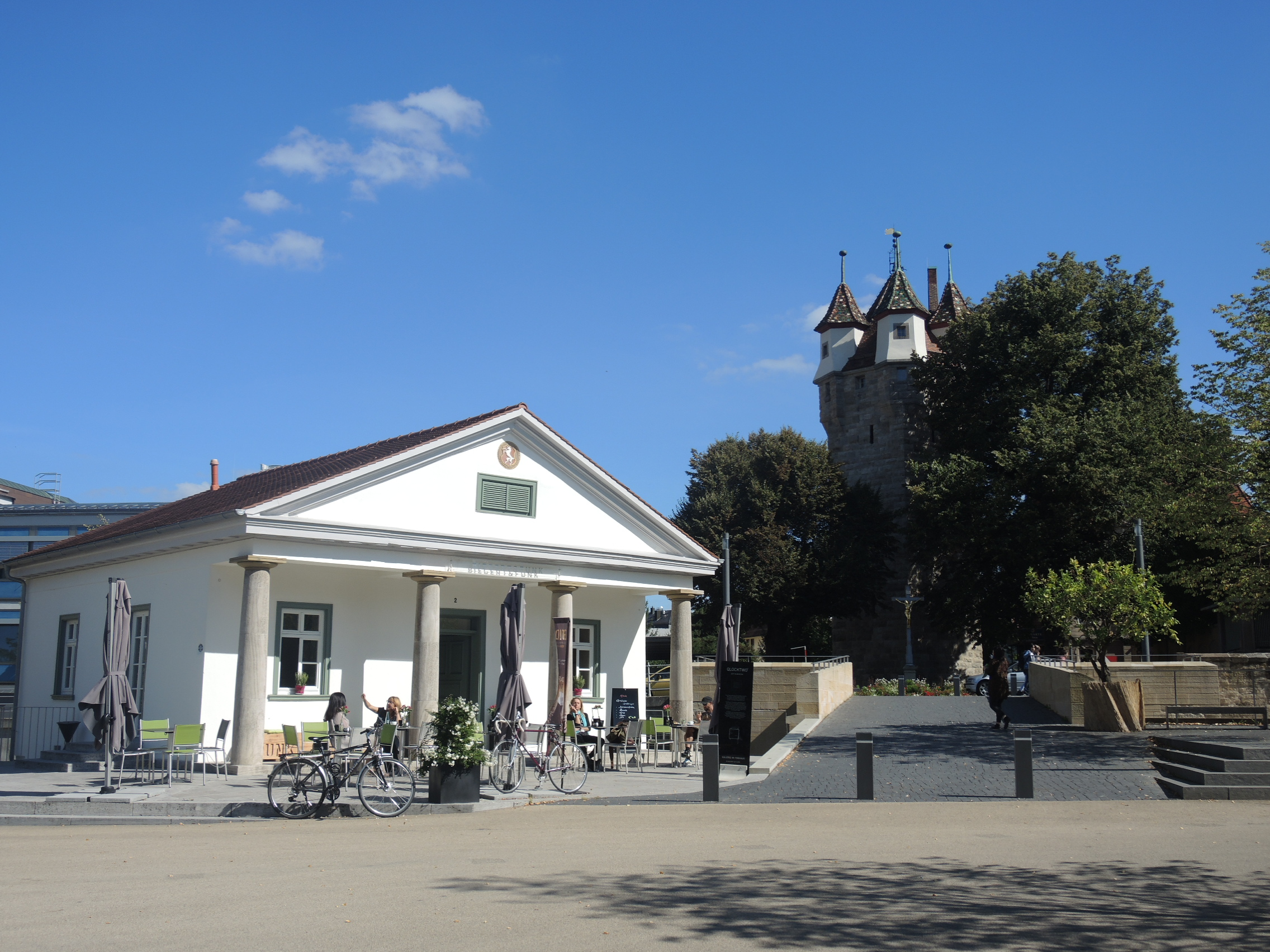 Torwächterhäusle (in front) and Fünfknopturm (background) in Schwäbisch Gmünd.